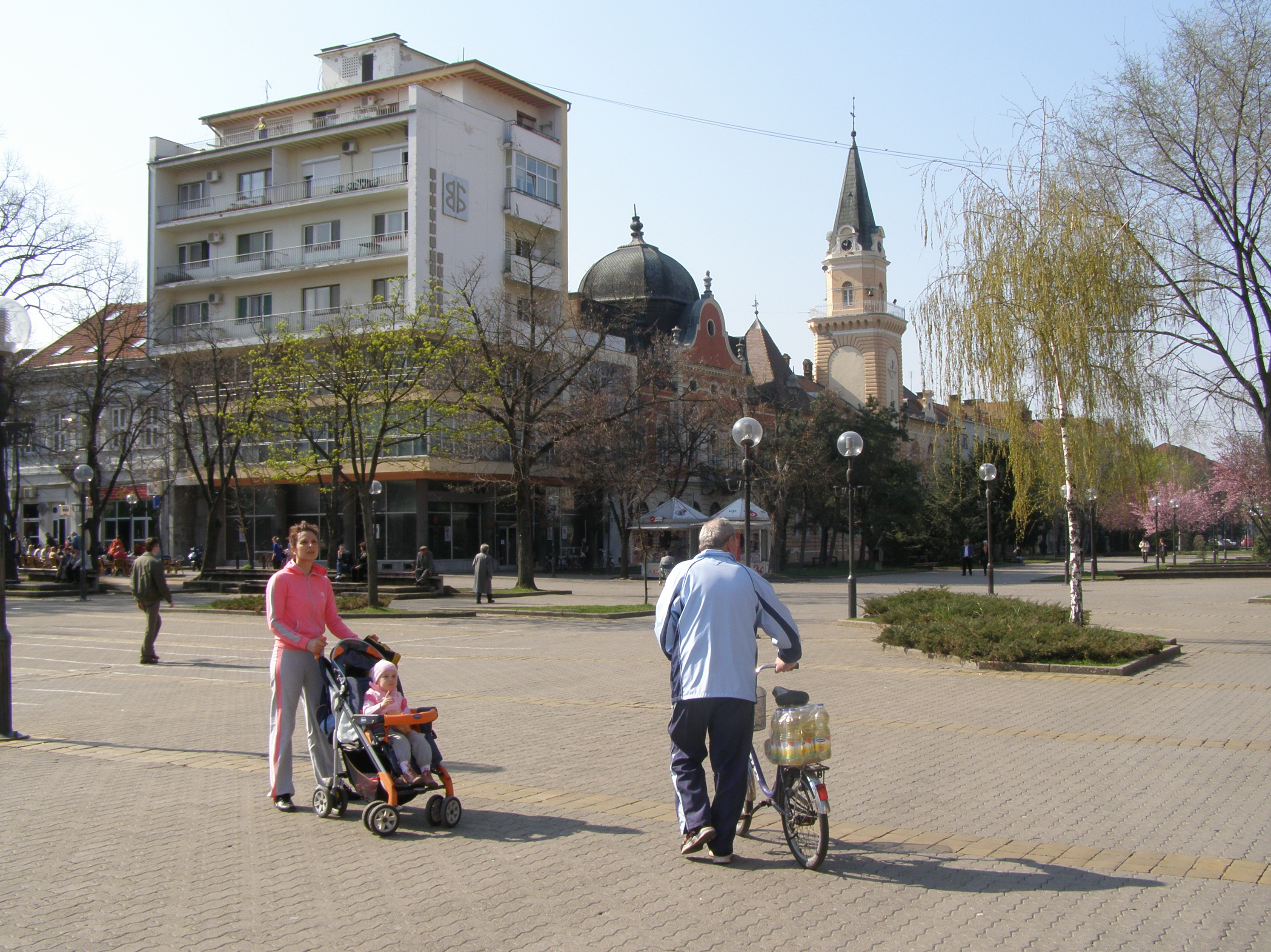 Town Sqare in Kikinda, Serbia